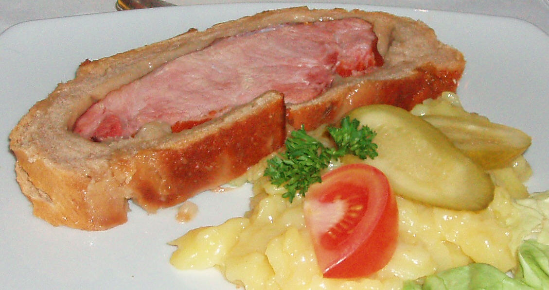 Kassler in bread with potato salad